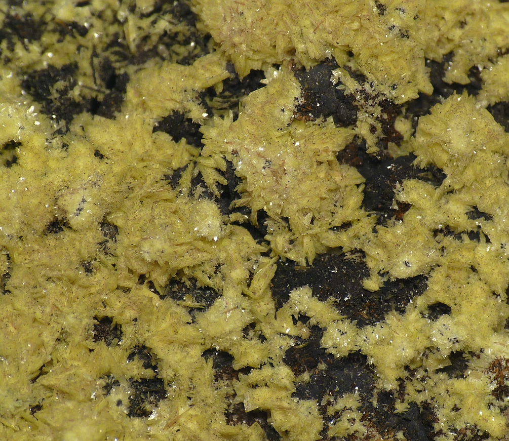 Trögerite Locality: Johanngeorgenstadt, Johanngeorgenstadt District, Erzgebirge, Saxony, Germany Excellent sample for the species and location. Collected in ~1950 at Shaft 31 and one of only three known samples. Analyzed at the University Freiberg. Field of view 2 cm. Paul Bongaerts collection